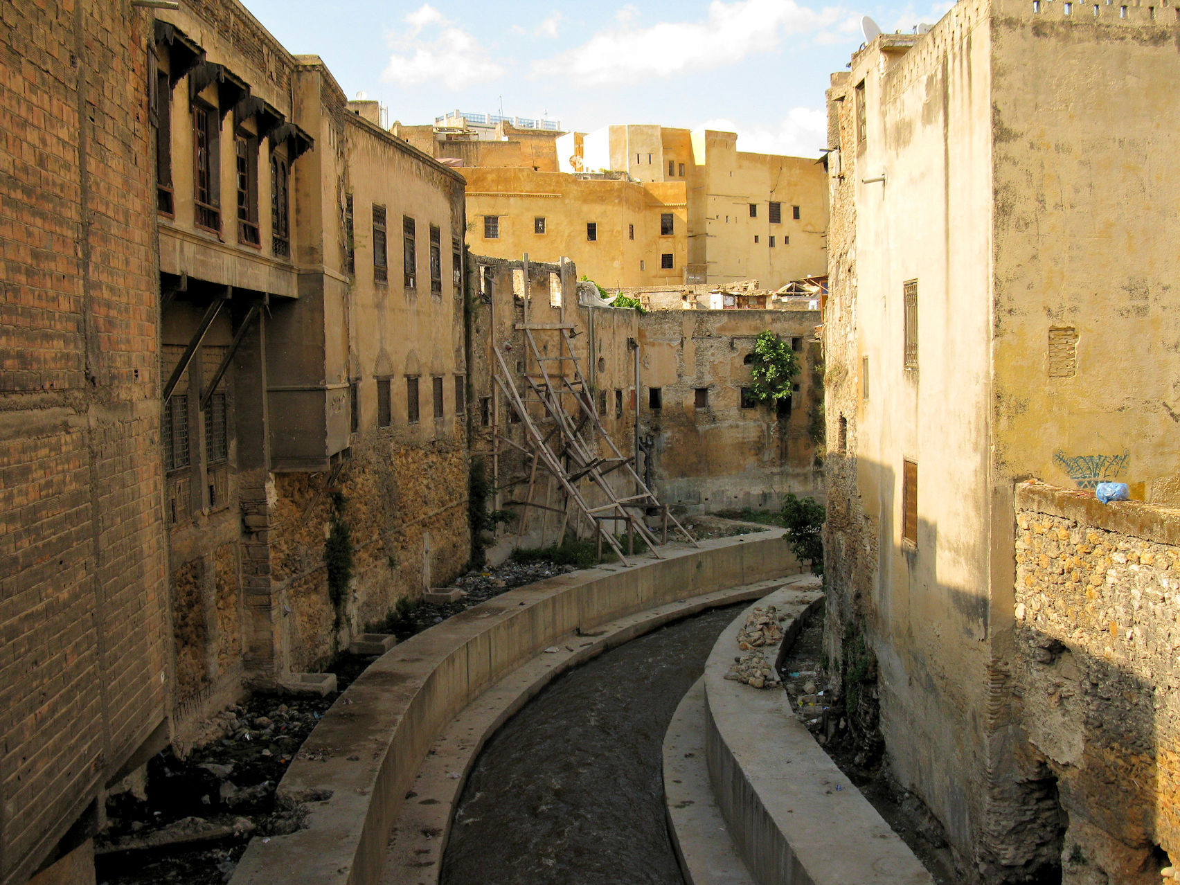 The Oued Bou Khareb in 2010, seen from the Terrafin bridge.